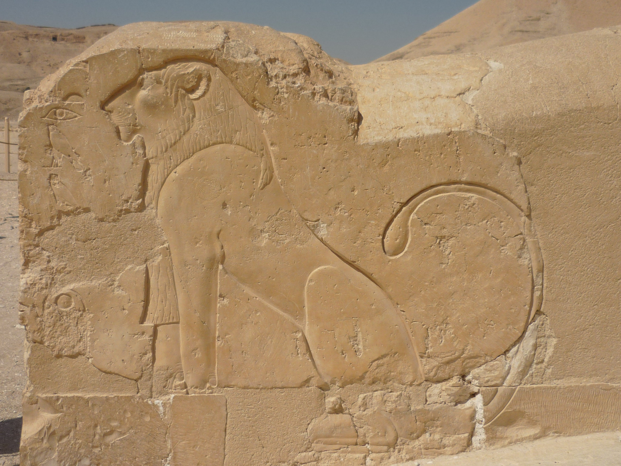 Relief, Hatshepsut temple, Deir el-Bahari, Theban Necropolis, Egypt